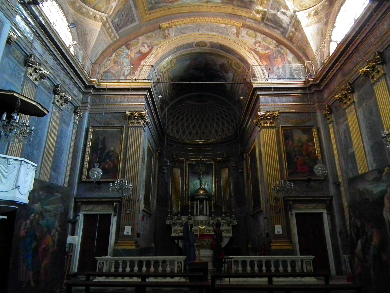 Sant'Antonio Abate Native nameOratorio di Sant'Antonio AbateLocationGenoa, Liguria, ItalyCoordinates44° 24′ 13.68″ N, 8° 55′ 54.26″ E Authority control : Q3884793 institution QS:P195,Q3884793